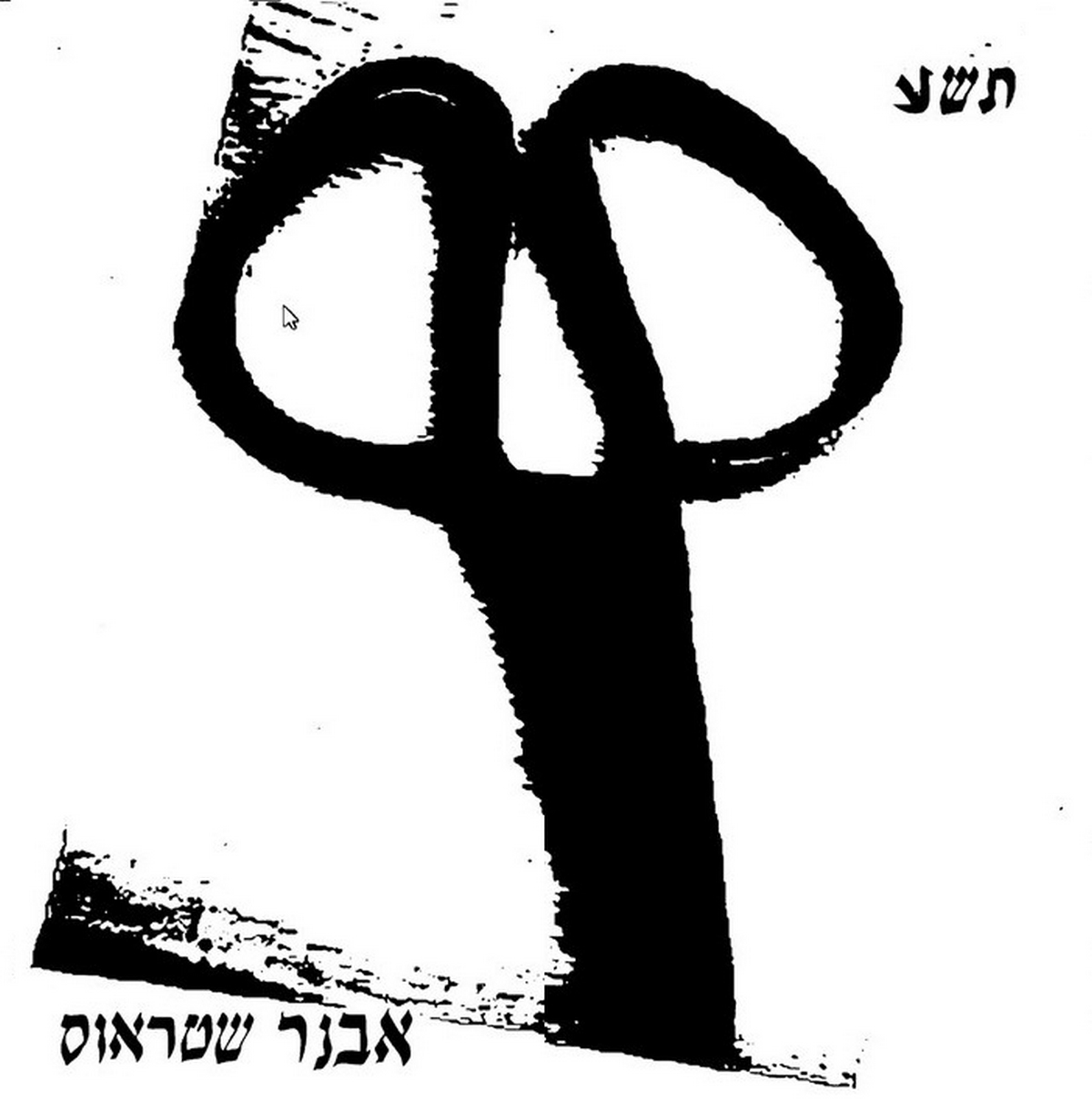 Tesha by Avner Strauss Album Cover